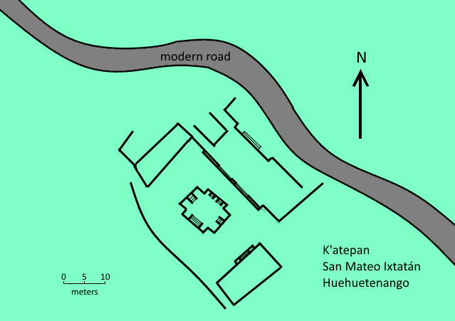 Plan of the site core of the Maya archaeological site of K'atepan, in the municipality of San Mateo Ixtatán, Huehuetenango department, Guatemala.